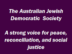 AJDS/Australian Jewish Democratic Society Logo